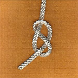 Probably created and uploaded on June 18, 2002 by User:Satsun.